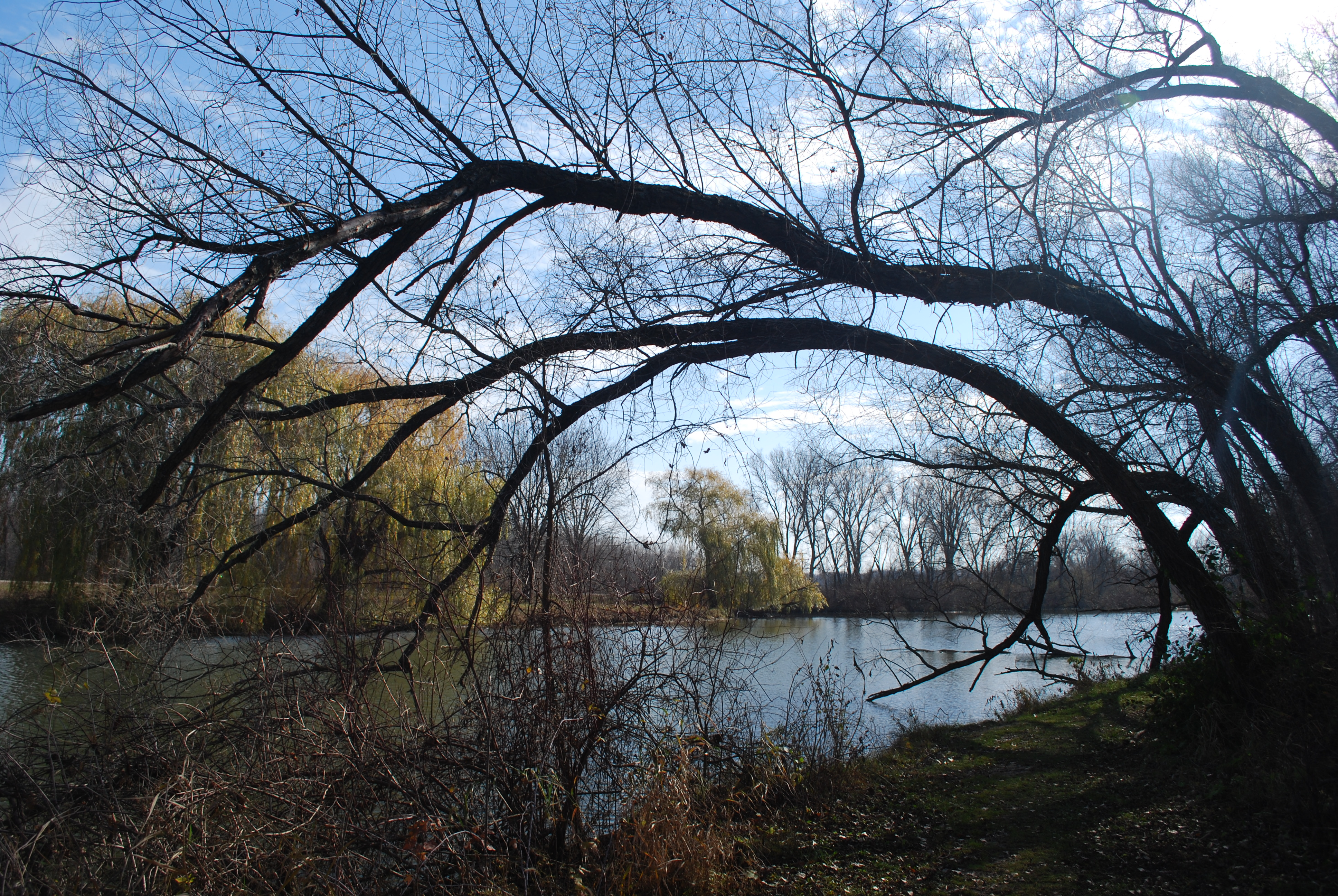 The Yahara River in Viking County Park in Dane County, Wisconsin.